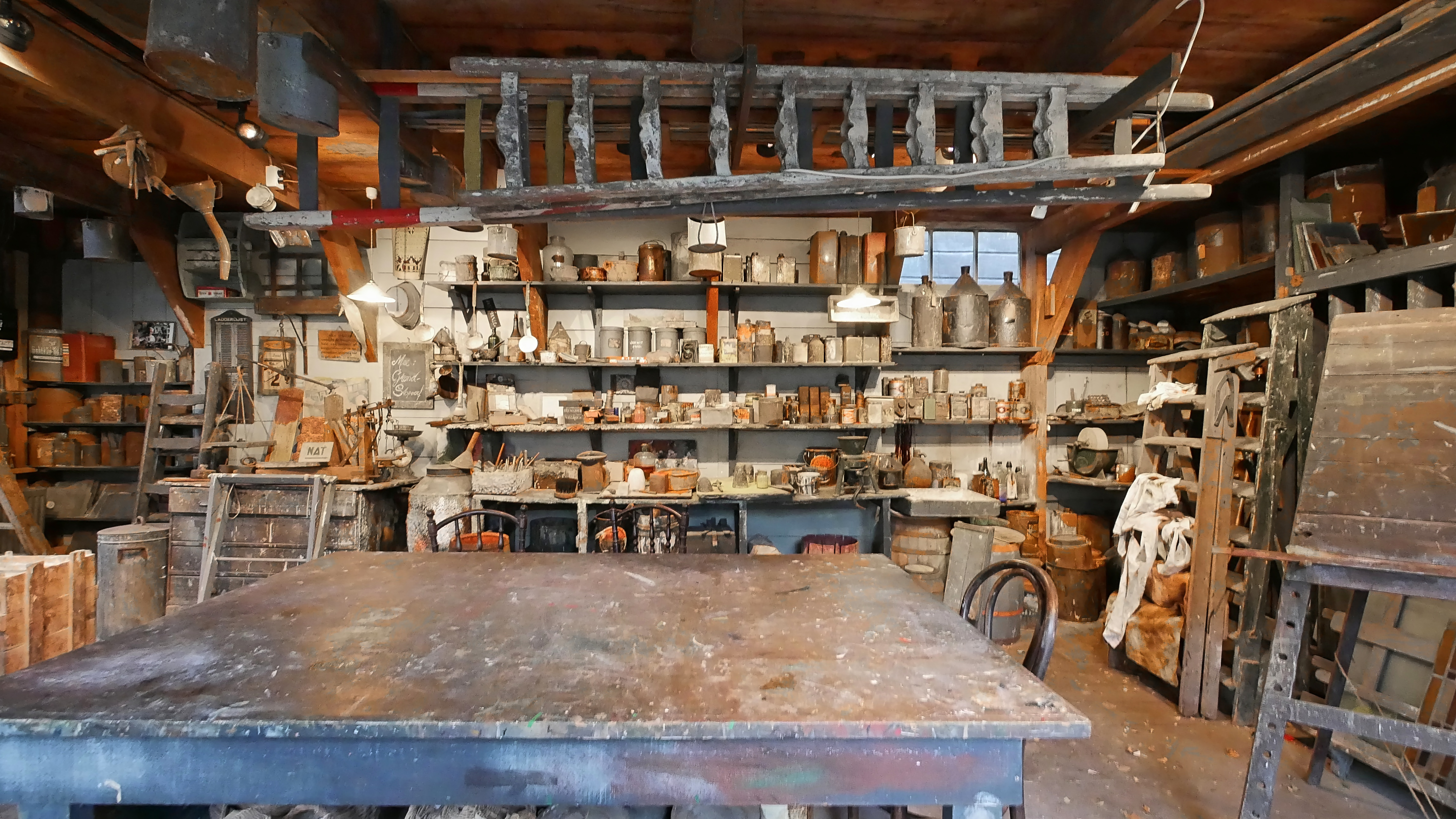 Zuiderzeemuseum Buitenmuseum Workshops - Painter